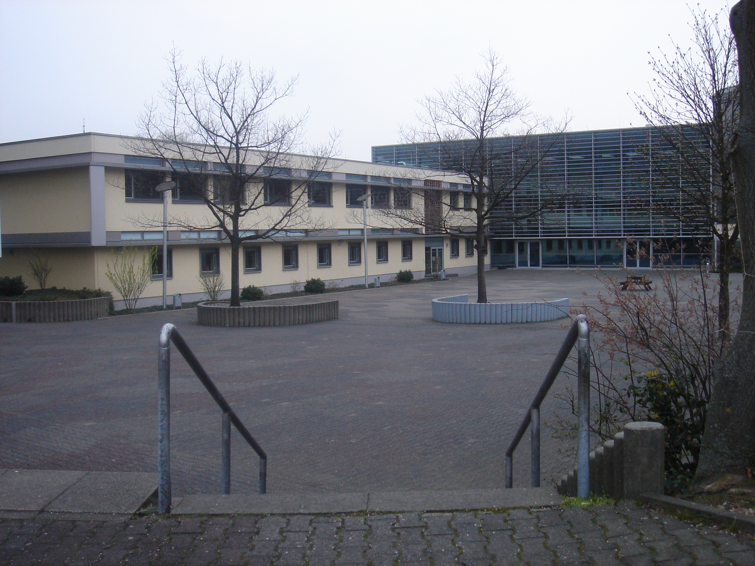 Schoolyard and new building of the Humboldtschule, Bad Homburg vor der Höhe, Germany